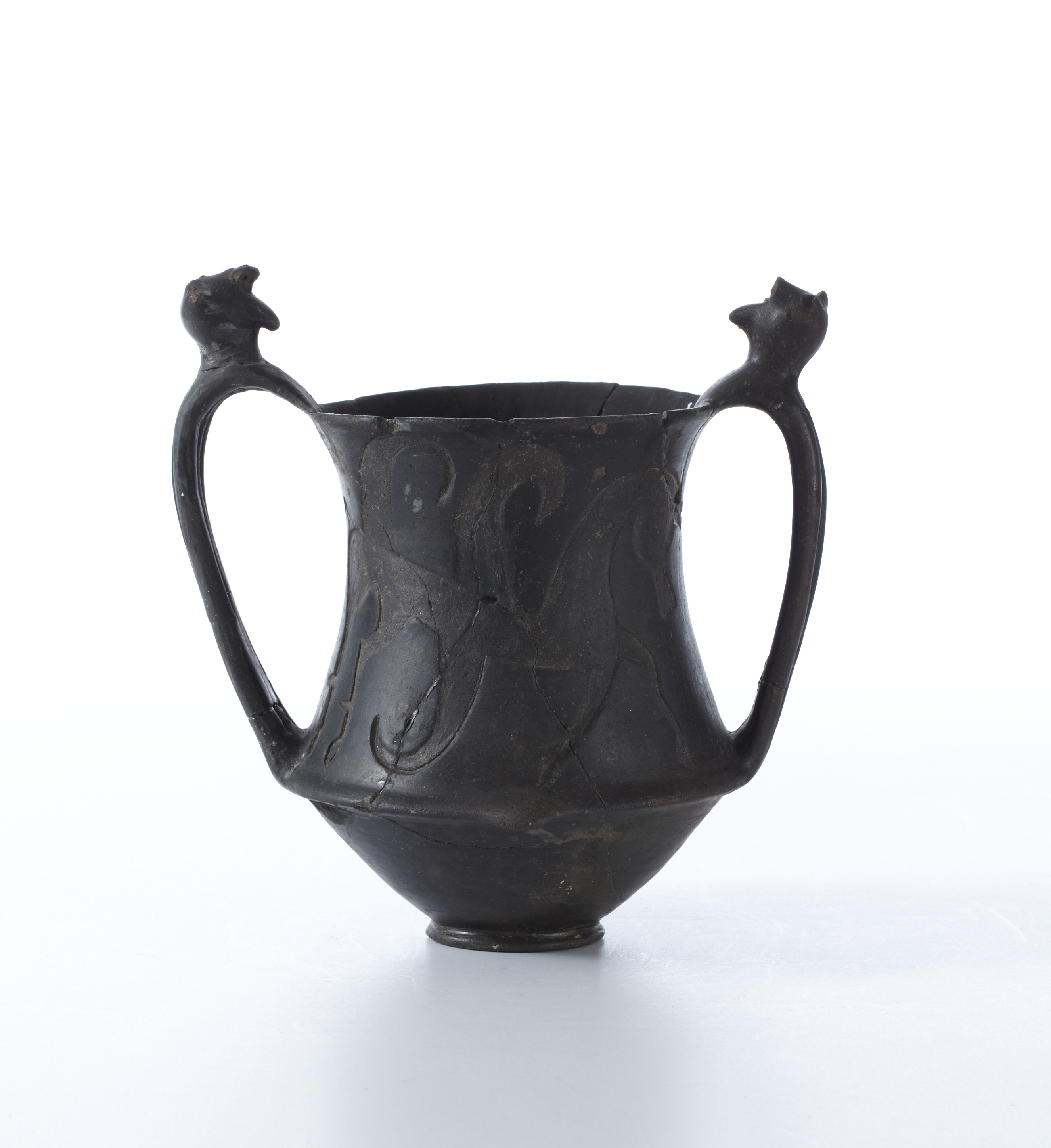 Kantharos con Cavallo stilizzato inciso su ceramica a impasto bruno, scavi del 1896 necropoli di Poggio Sommavilla, Museo Nazionale di Danimarca